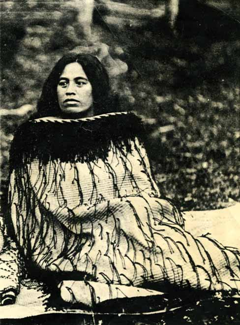 Mihi Kotukutuku Stirling (1870–1956) was a notable New Zealand tribal leader. Guess at 1900 for pic